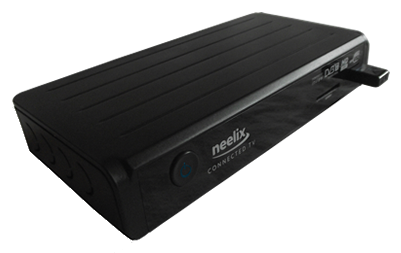 Inview Technology set-top box, 2013, found on the main Inview page. This image's HTML tag on the website is: This image is therefore licenced on CC-BY-SA 3. It is an image of a set-top box created in 2012; and should remain as an example of a modern box.